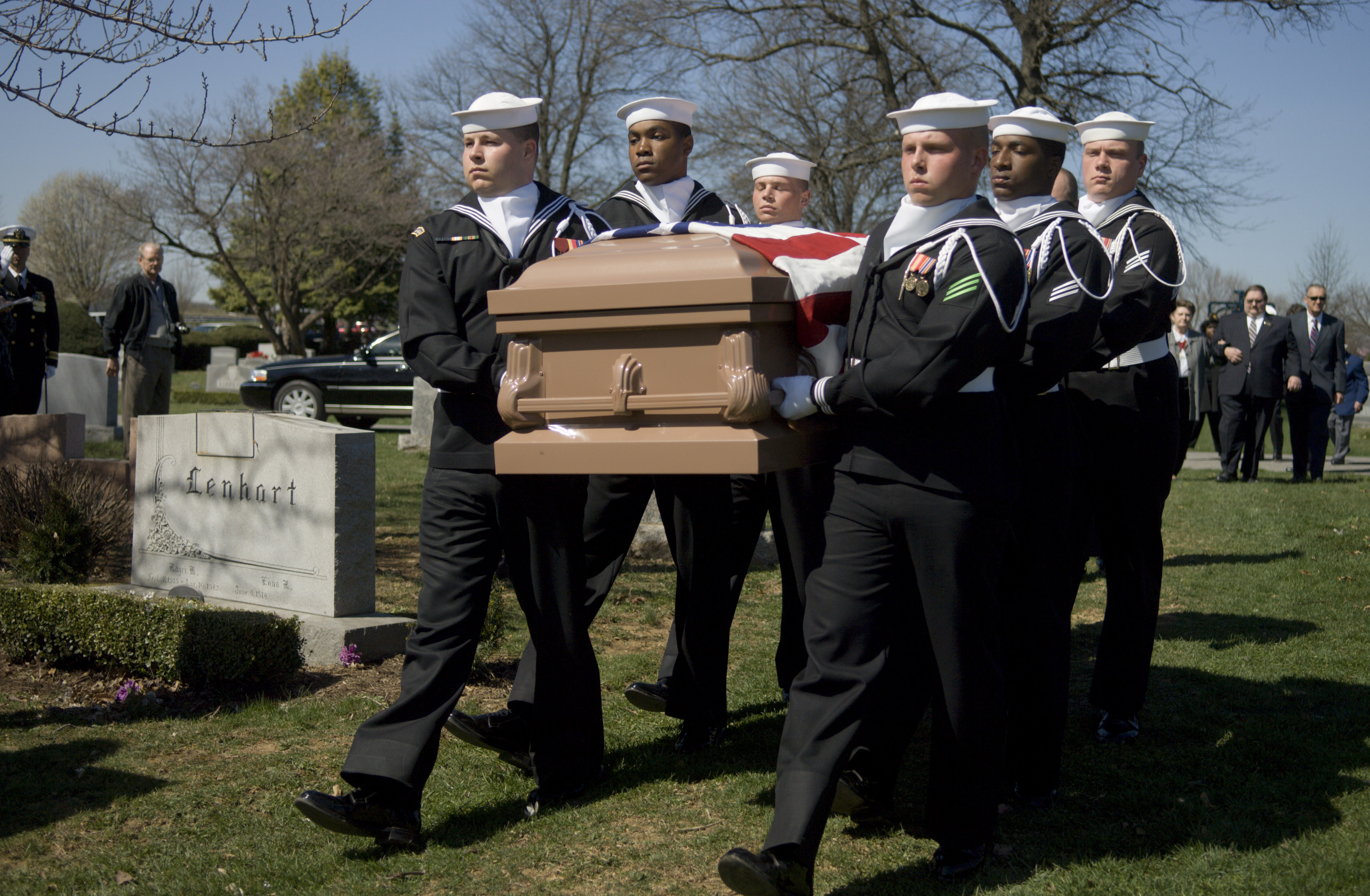 FREDERICK, Md. (March 30, 2007) - Navy Ceremonial Guard carries the casket of Charlotte Louise Berry Winters, the last known female veteran and former Navy Yeoman (F) of World War I, in Frederick, Md. Winters who enlisted in the Navy in 1917 and was a founding member of the National Yeoman (F) veterans' organization died at the age of 109 on March 27th 2007.